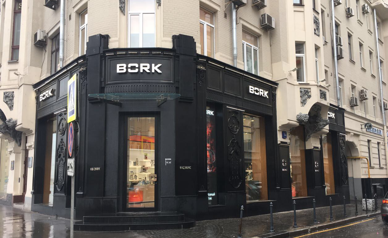 Front side of the 'Bork' shop in Moscow.